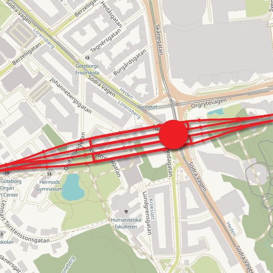 OpenStreetMaps of Gothenburg in Sweden, including layer of Västlänken train tunnel at Korsvägen